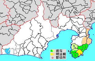 The location of Kamo District in Shizuoka Prefecture, Japan